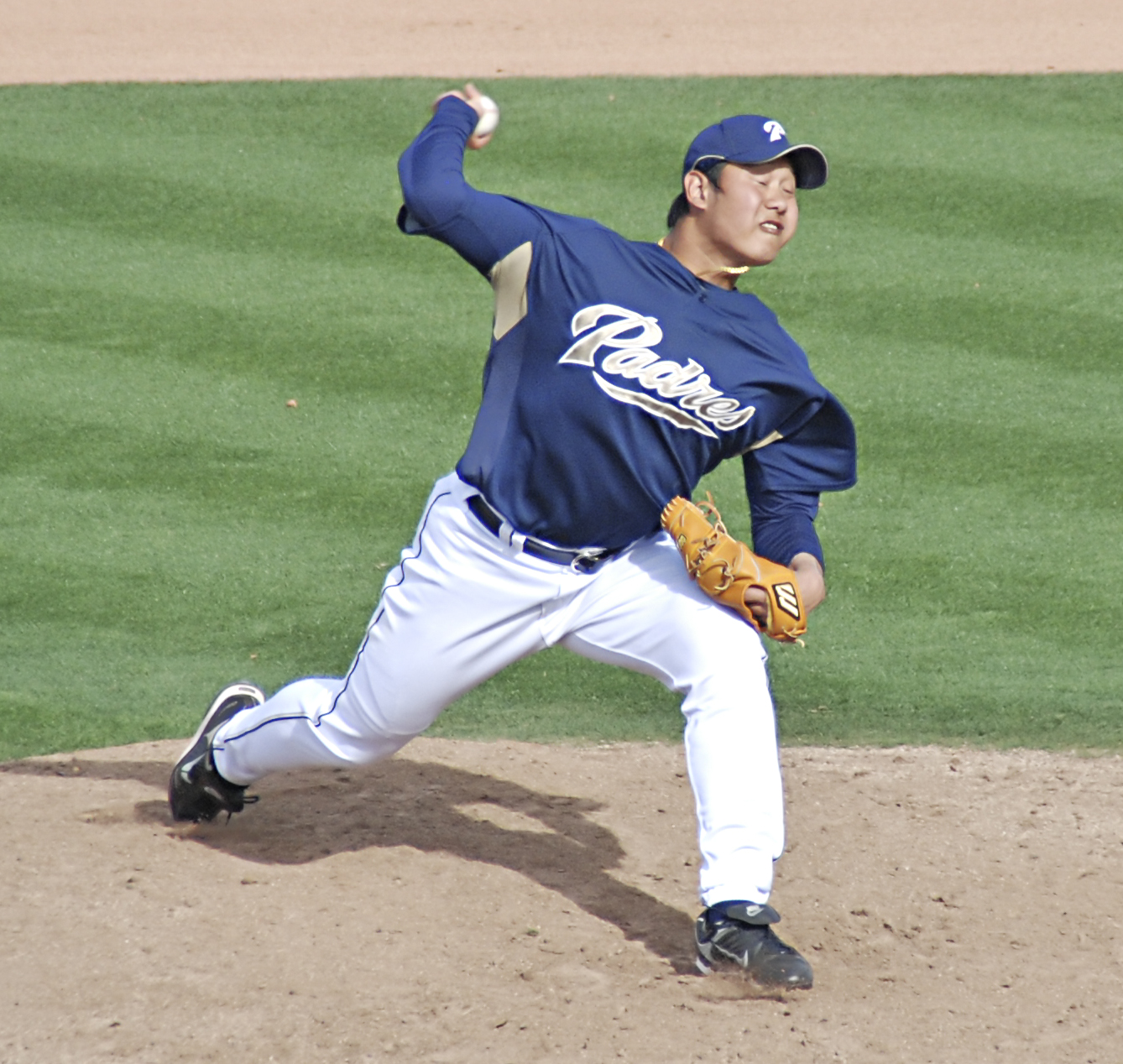 Jae Kuk Ryu, pitcher for the San Diego Padres spring training baseball team 2009.